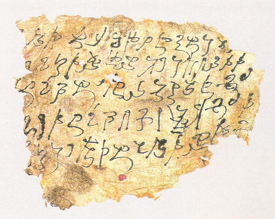 Paper strip with writing in Kharoshthi. 2-5th century CE, Yingpan, Tarim Basin, Xinjiang Museum.